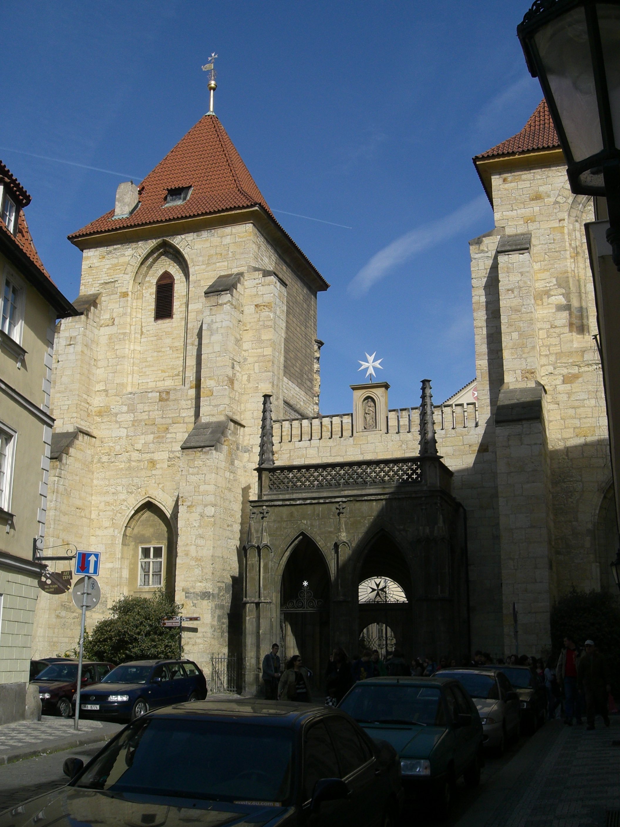 Řádový kostel Panny Marie pod řetězem, Prague, Czech Republic